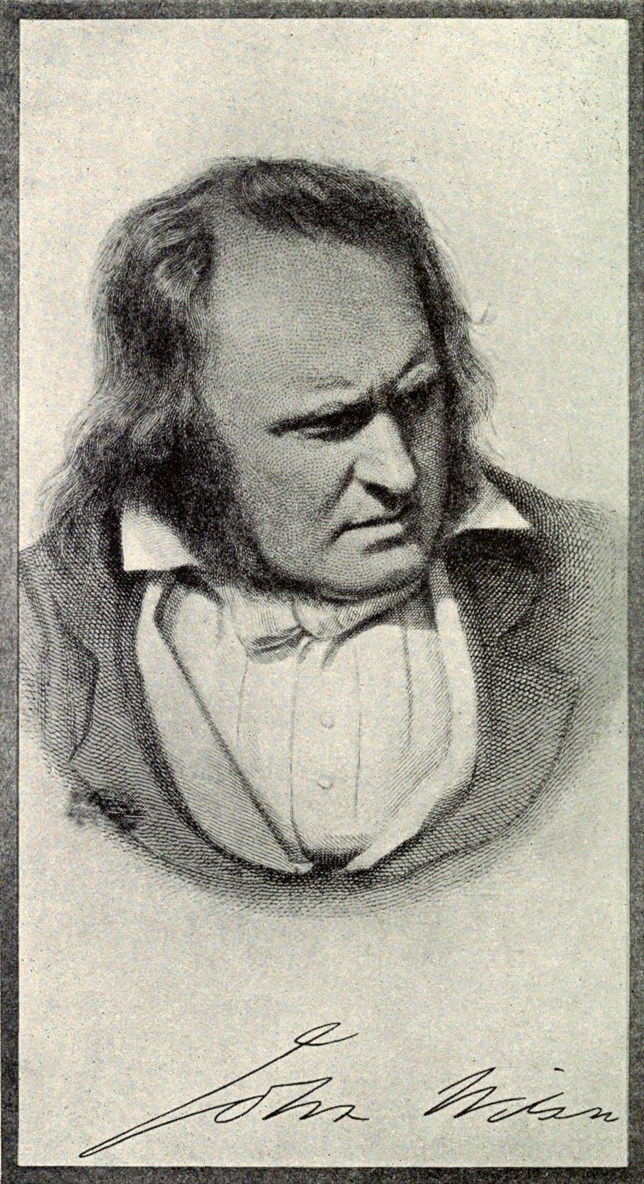 Portrait etching of John Wilson (1785-1854)